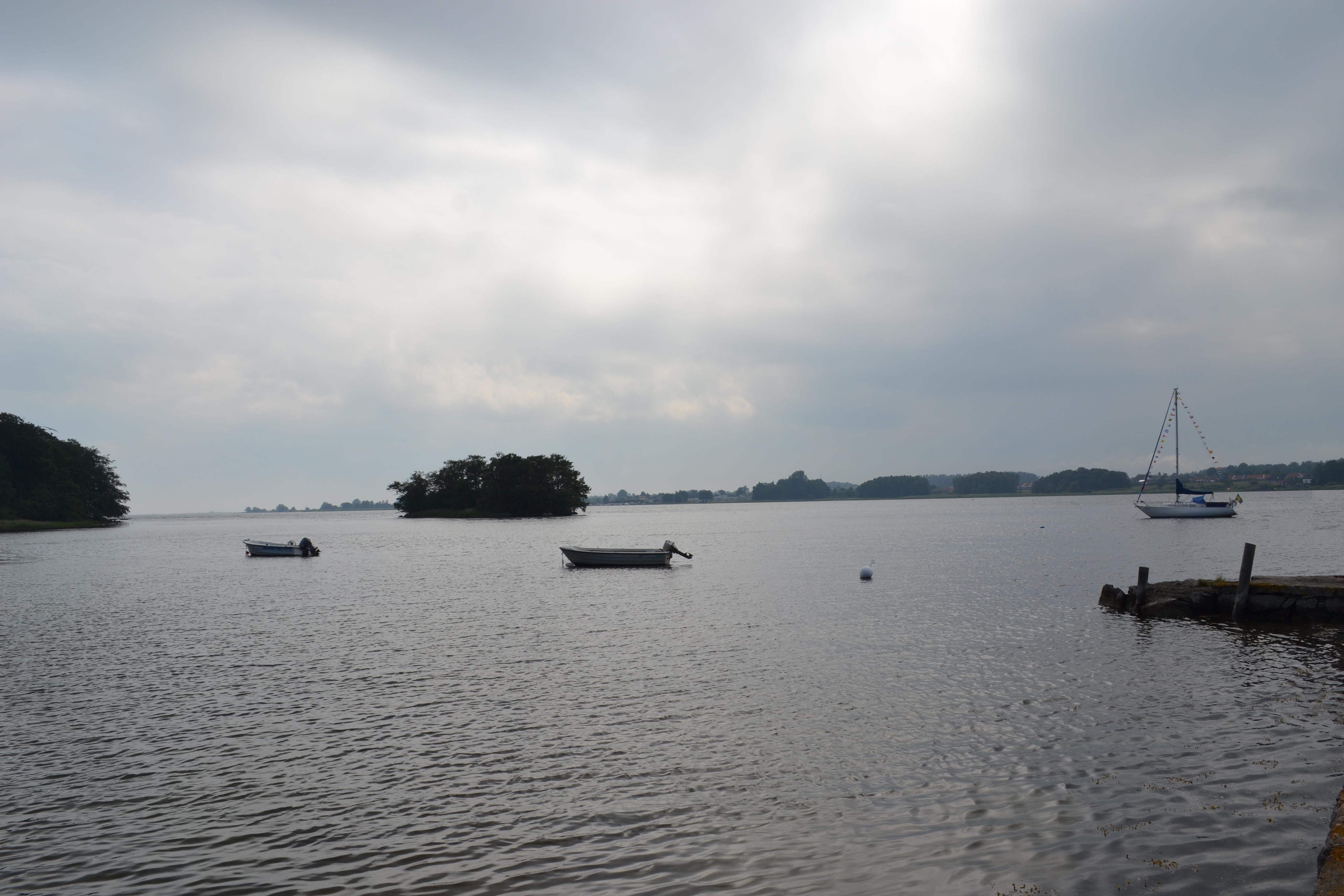 The bay of Valje sen from the camping of Valje